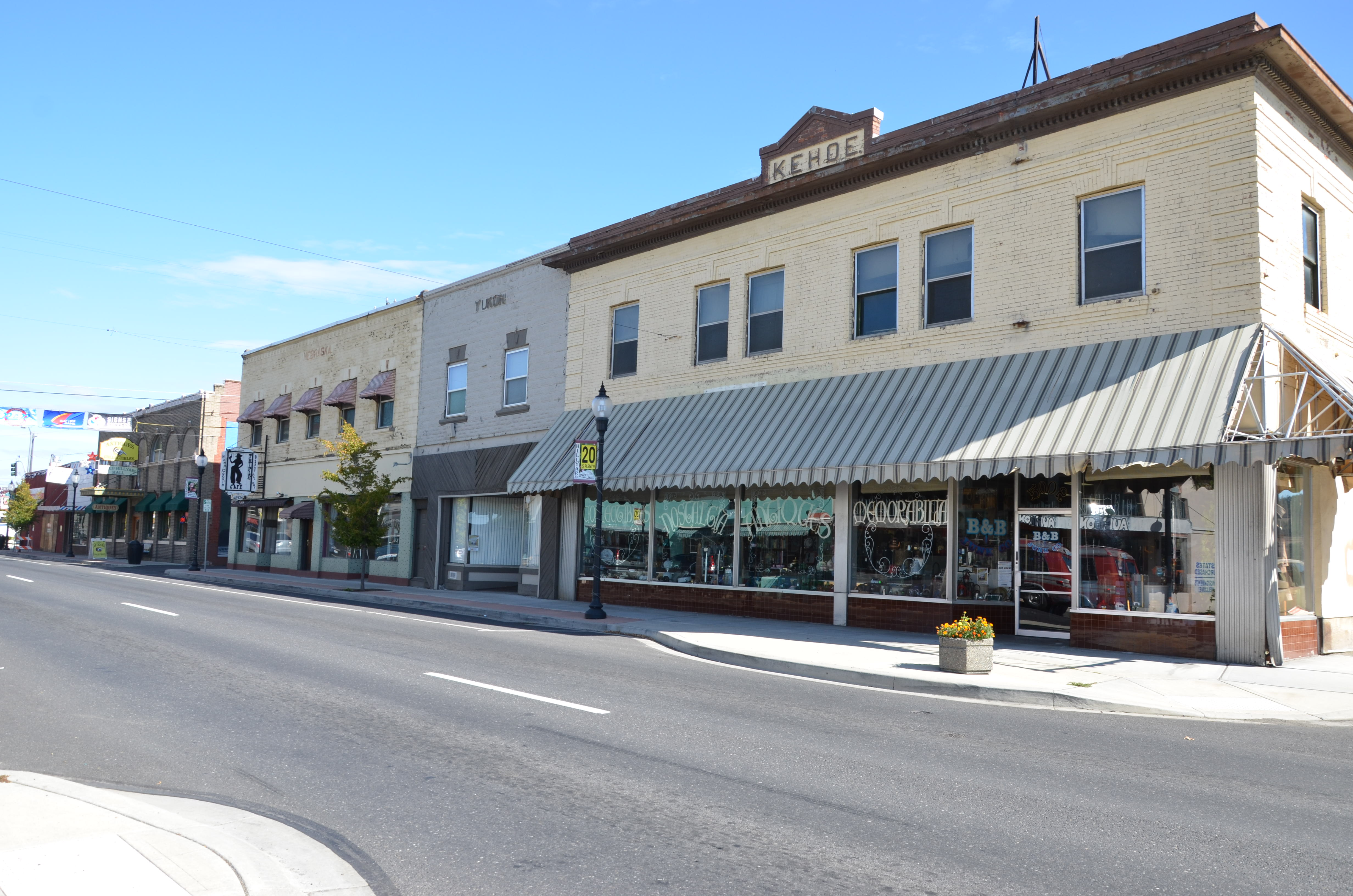 Looking N to NE on Market Street in the Hillyard Historic Business District, listed on the National Register of Historic Places.